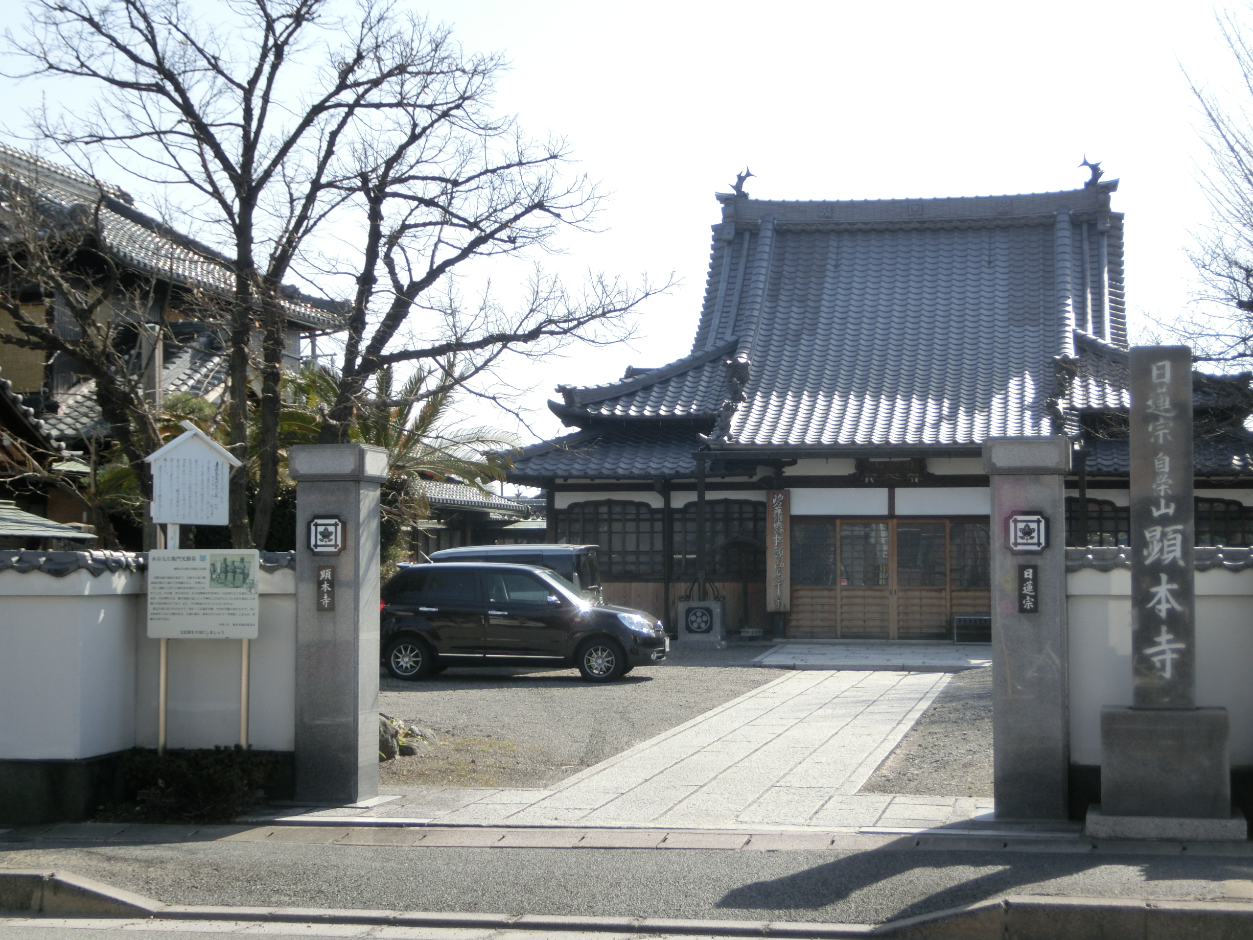 Kempon-ji (Kuwana)